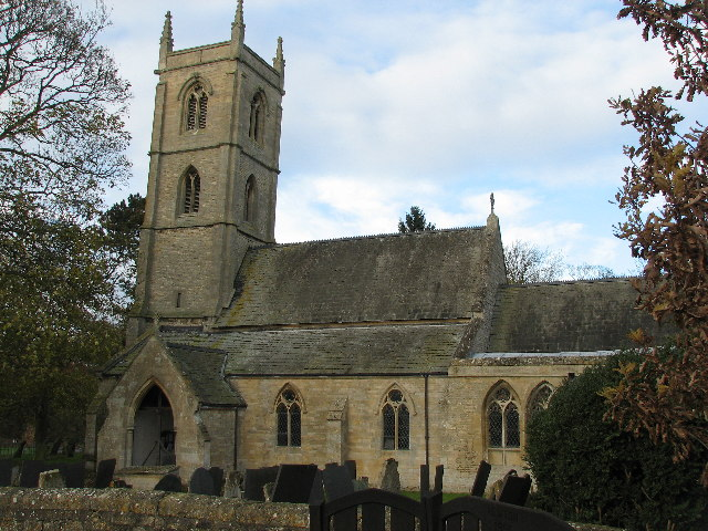 St Botolph's parish church, Newton, North Kesteven, Lincolnshire, seen from the southeast